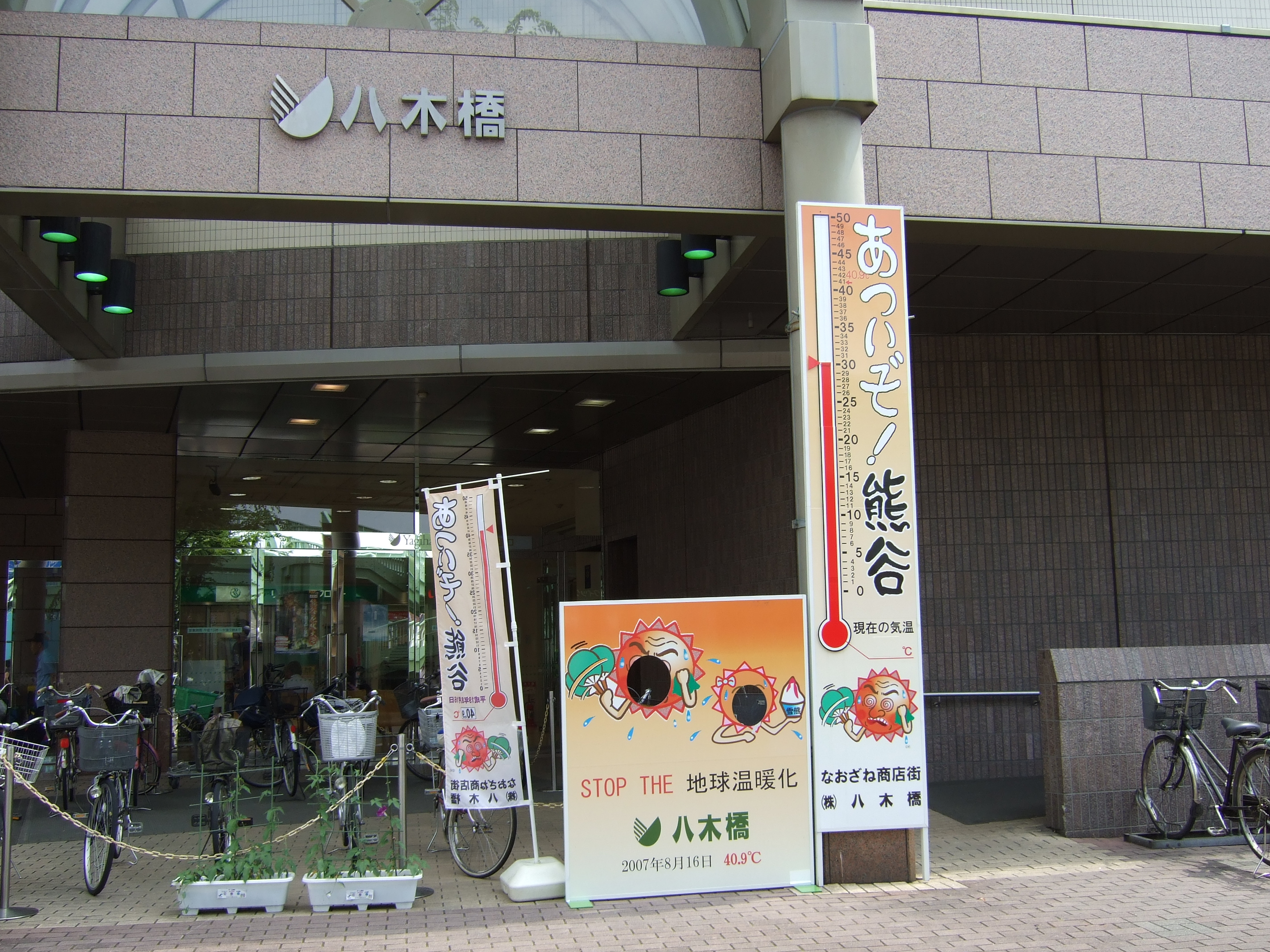 The thermometer with graduations until 50 degrees centigrade, at Yagihasi department store in Kumagaya city, Saitama prefecture, Japan.